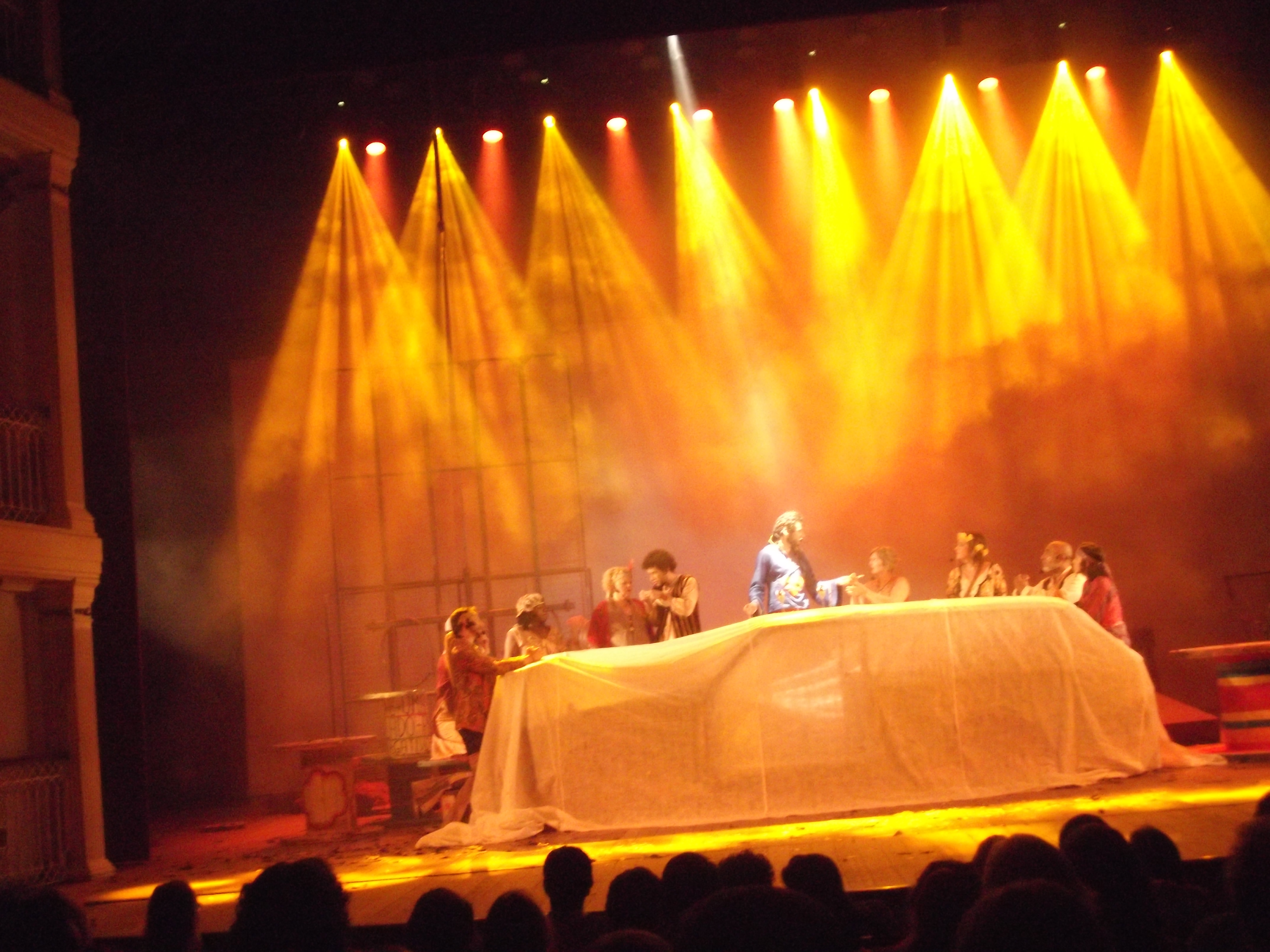 Godspell (musical), Theatro São Pedro, 2015-01-24